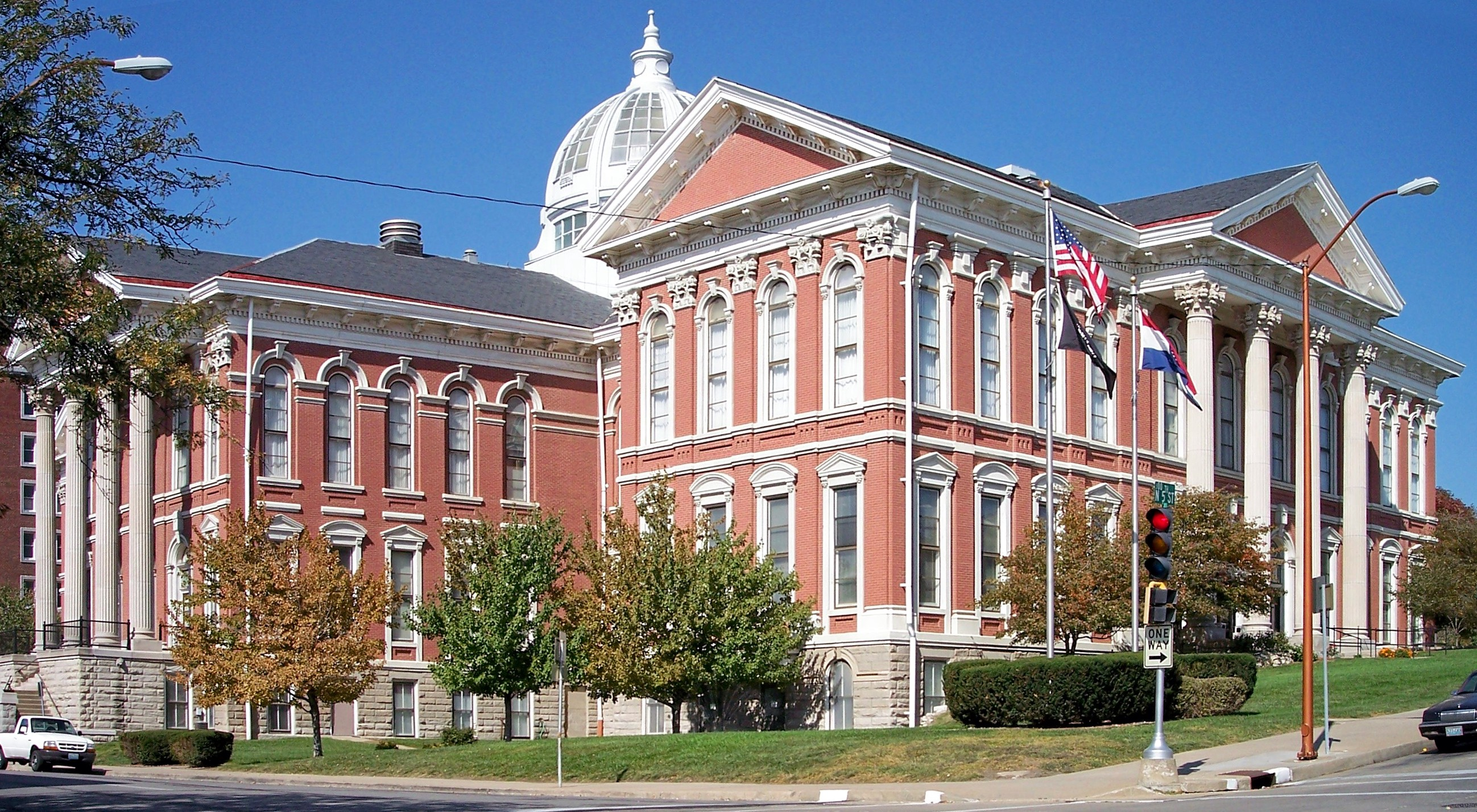 The Buchanan County, Missouri courthouse in downtown Saint Joseph, Missouri